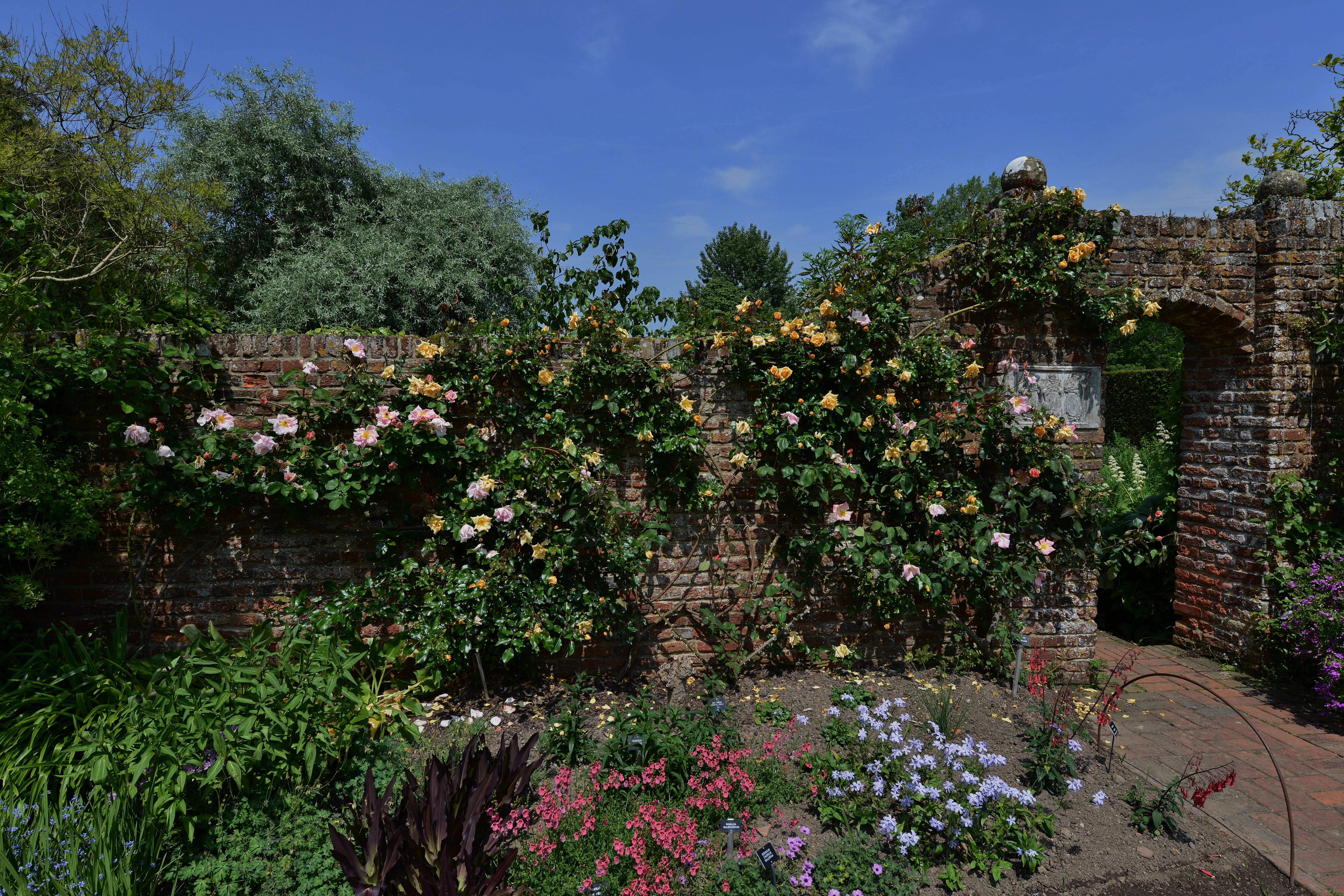 Photo by Michael Garlick